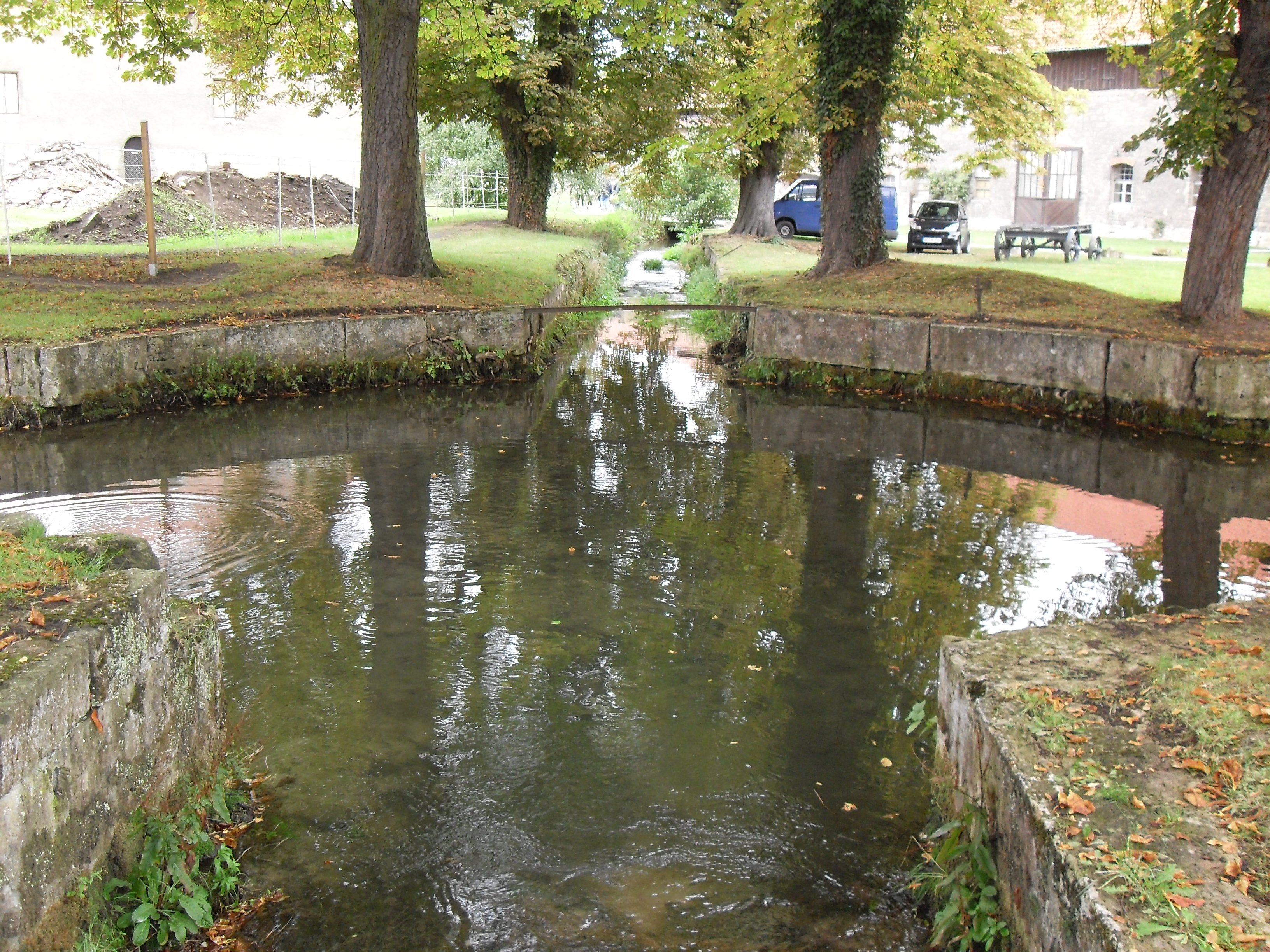 pond in the yard of Rittergut Lucklum, Germany